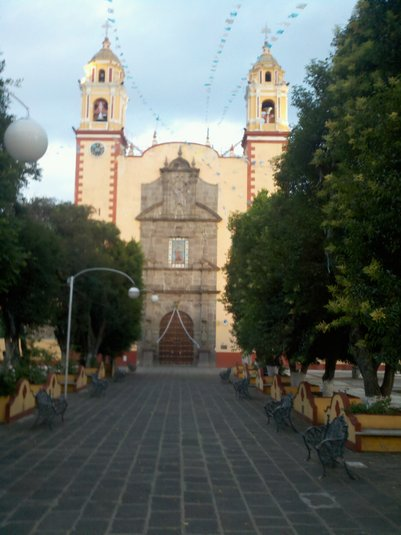 Ex-Convento Franciscano en Cholula de Rivadabia